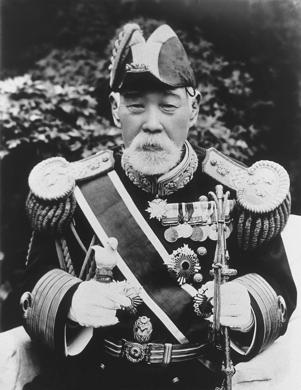 Portrait of Inoue Yoshika (井上良馨, 1845 – 1929)